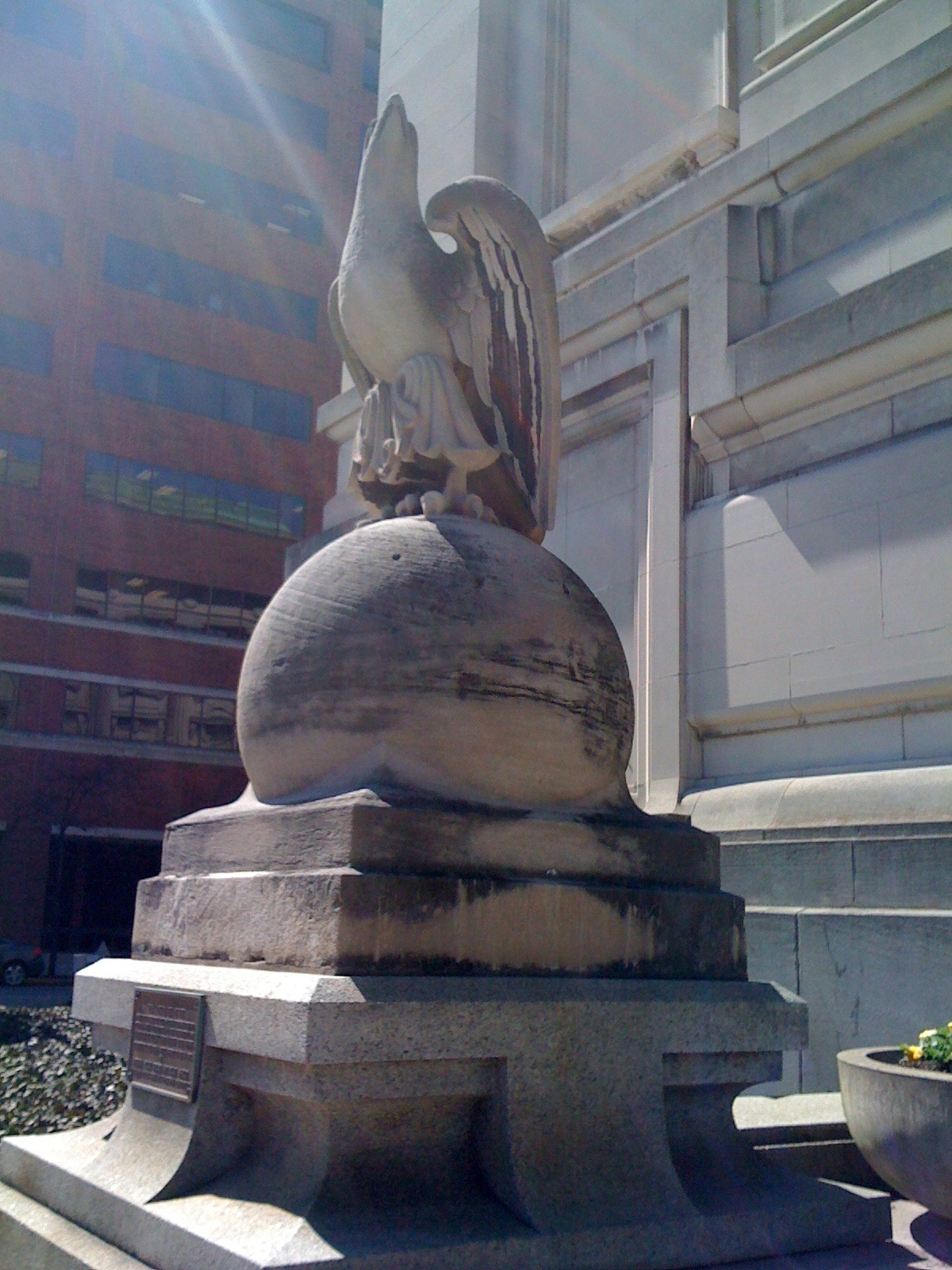 Pair of Eagles Perched on Globes by Alexander Sangernebo (1904)